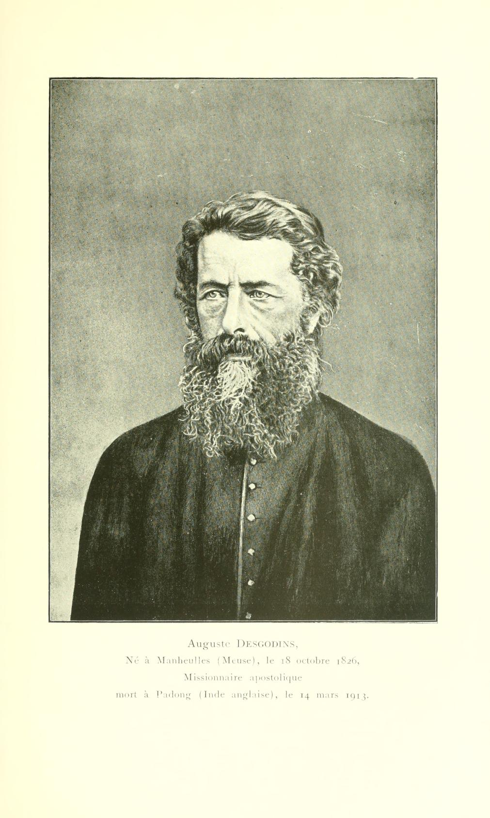 August Desgodins